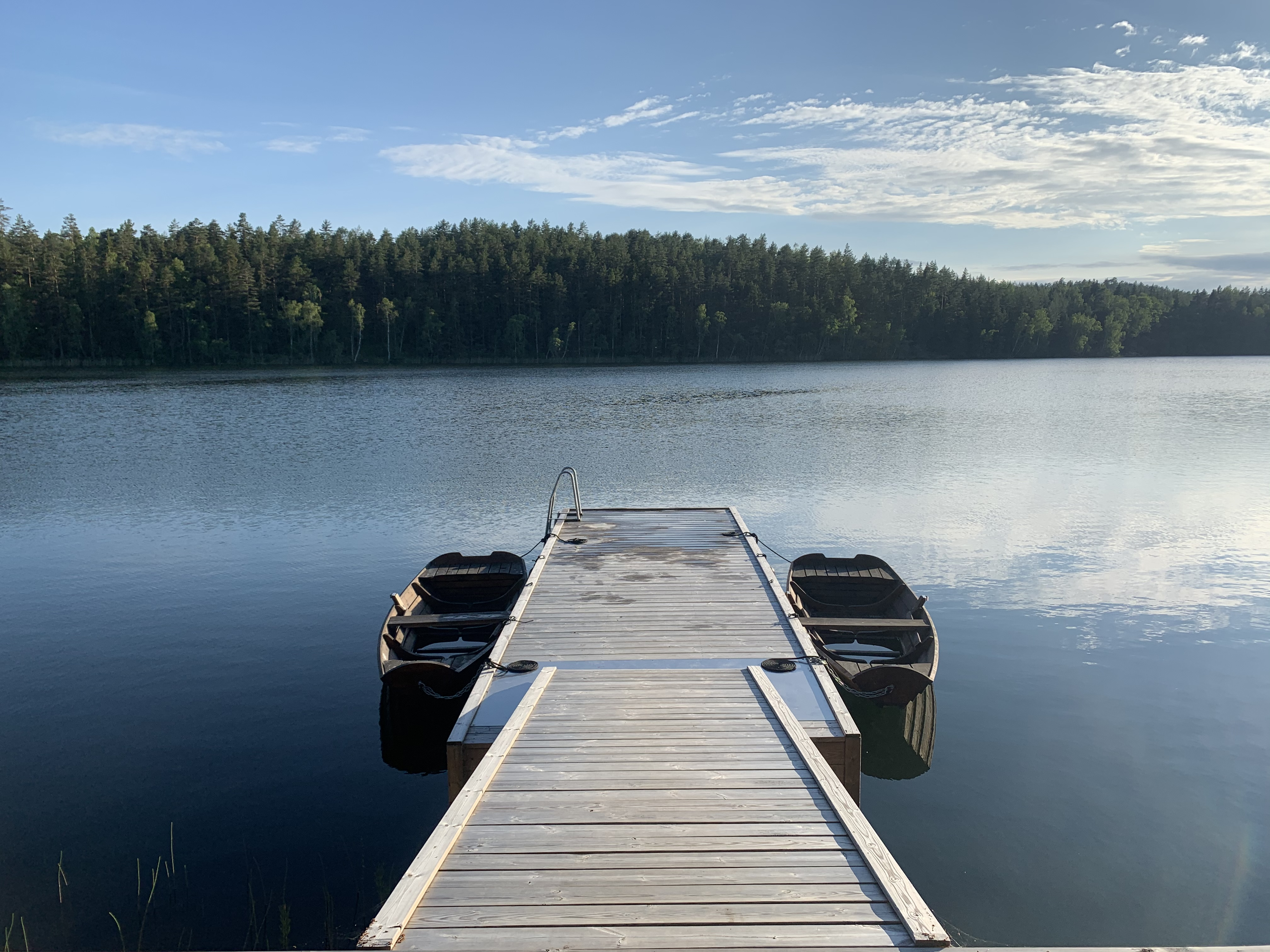 A wooden jetty on the coast of Lake Ommen, situated north of Västervik